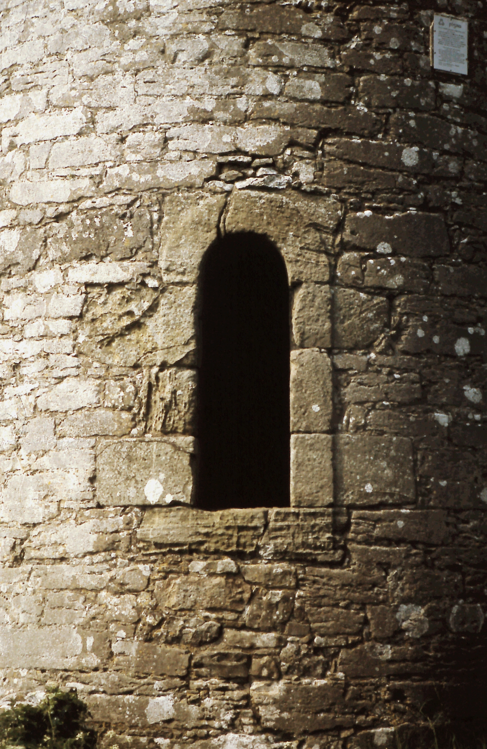 Doorway at Kilree Round Tower